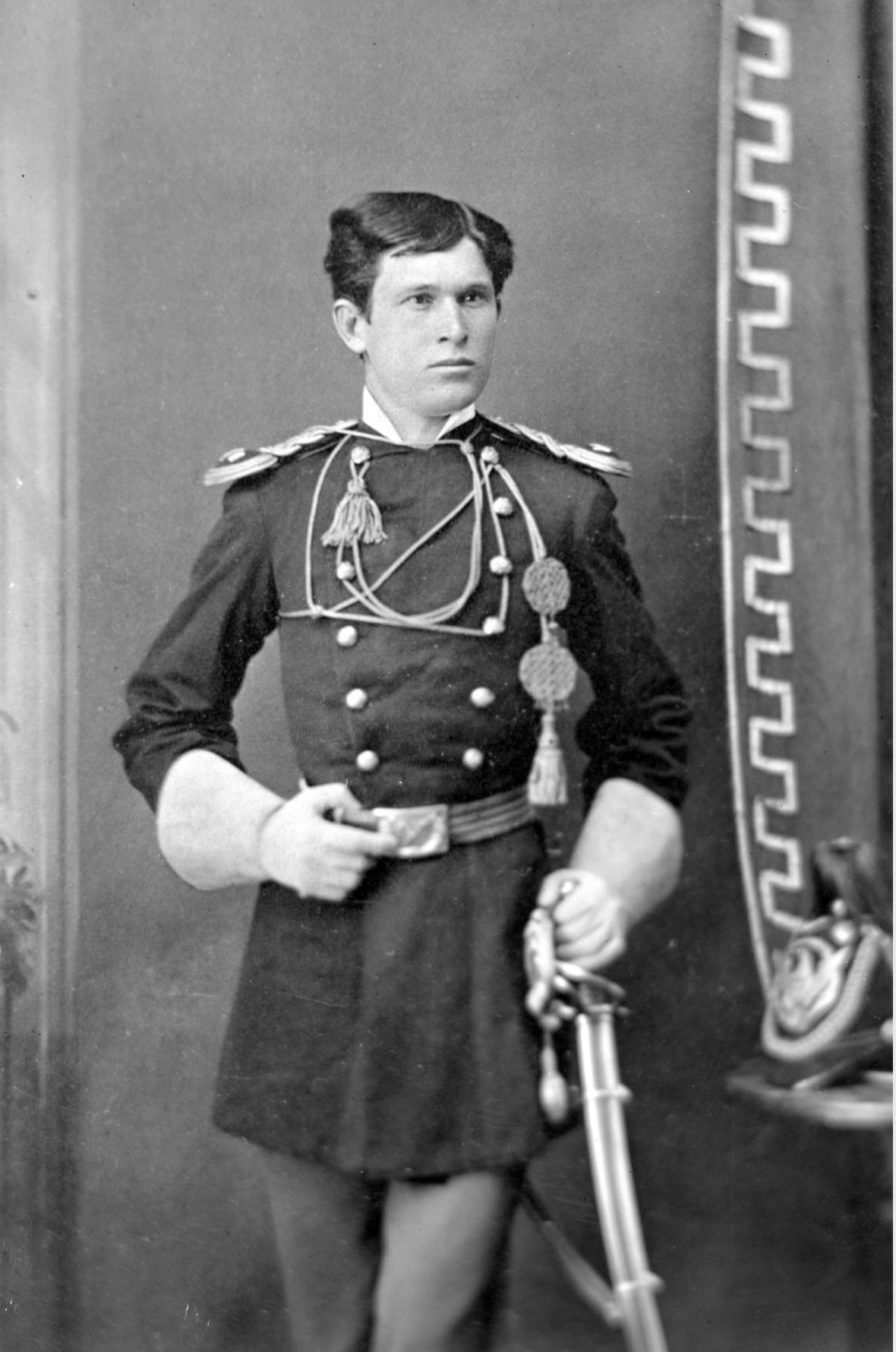 Lt. Luther R. Hare, in uniform.